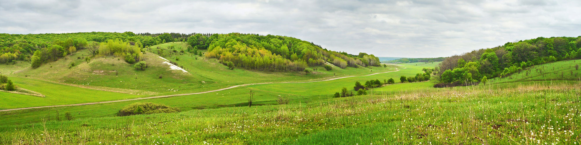 Kamenny Log, arroyo. Belgorod Oblast, Russia.